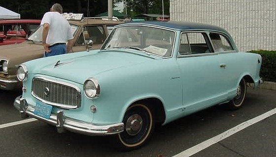 1959 Rambler American 2-door compact sedan by American Motors Corporation (AMC) -- the first generation design. Painted in optional factory two-tone blue.